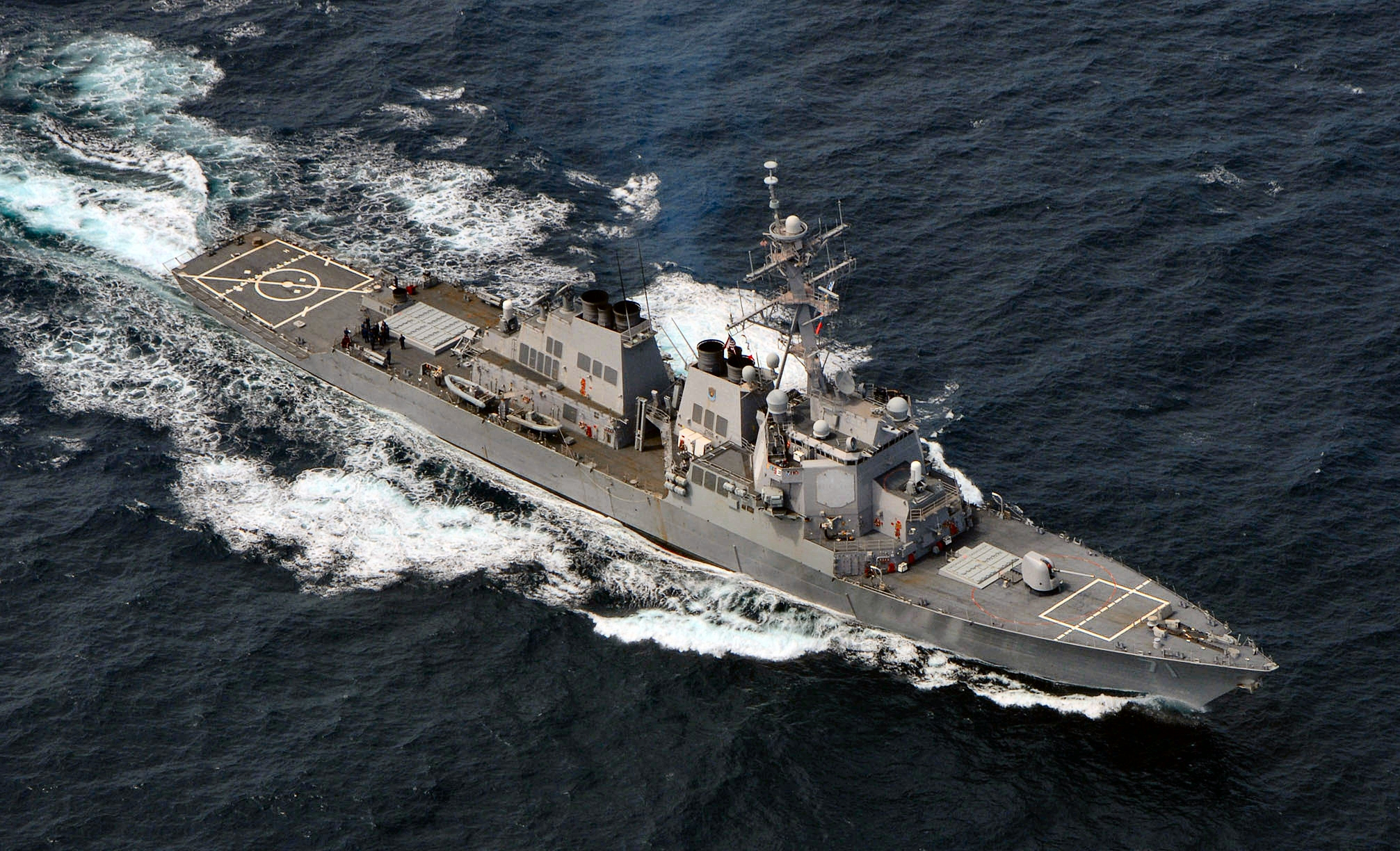 051024-N-4374S-010 Atlantic Ocean (Oct. 24, 2005) - The guided missile destroyer USS Ross (DDG 71) underway in the waters of the Atlantic Ocean during UNITAS 47-06 Atlantic Phase. Naval forces from Argentina, Brazil, Spain, Uruguay and the United States are participating in UNITAS 47-06 Atlantic phase. This is a U.S. Southern Command-sponsored exercise that enhances friendly, mutual cooperation and understanding between participating navies by enhancing interoperability in naval operations among the nations of the Western Hemisphere.